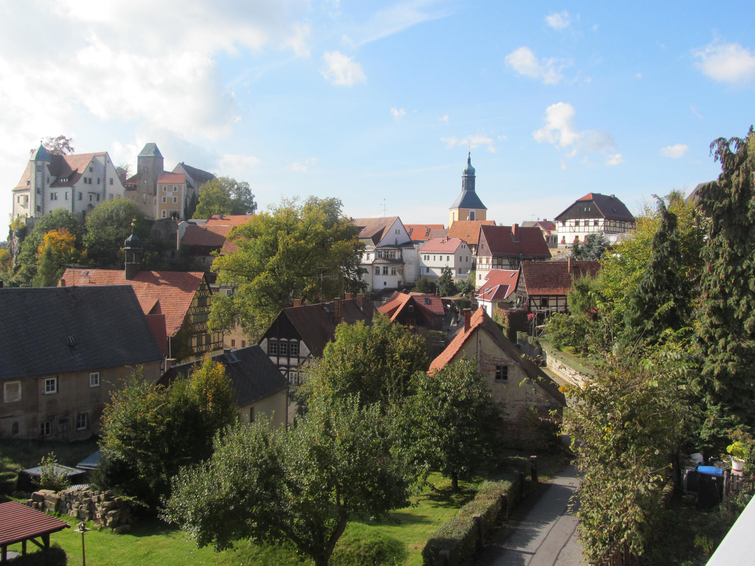 Hohnstein Total View